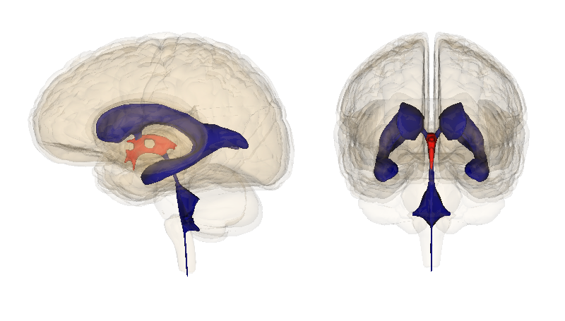 third ventricle. Images are from Anatomography maintained by Life Science Databases(LSDB).